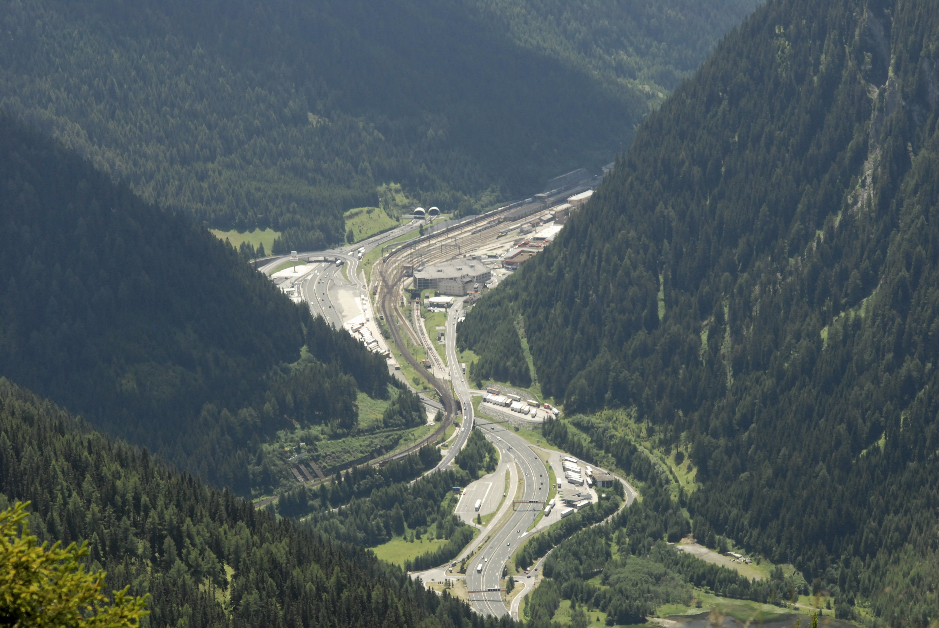 The Brennerpass seen from north (Padauner Kogel)